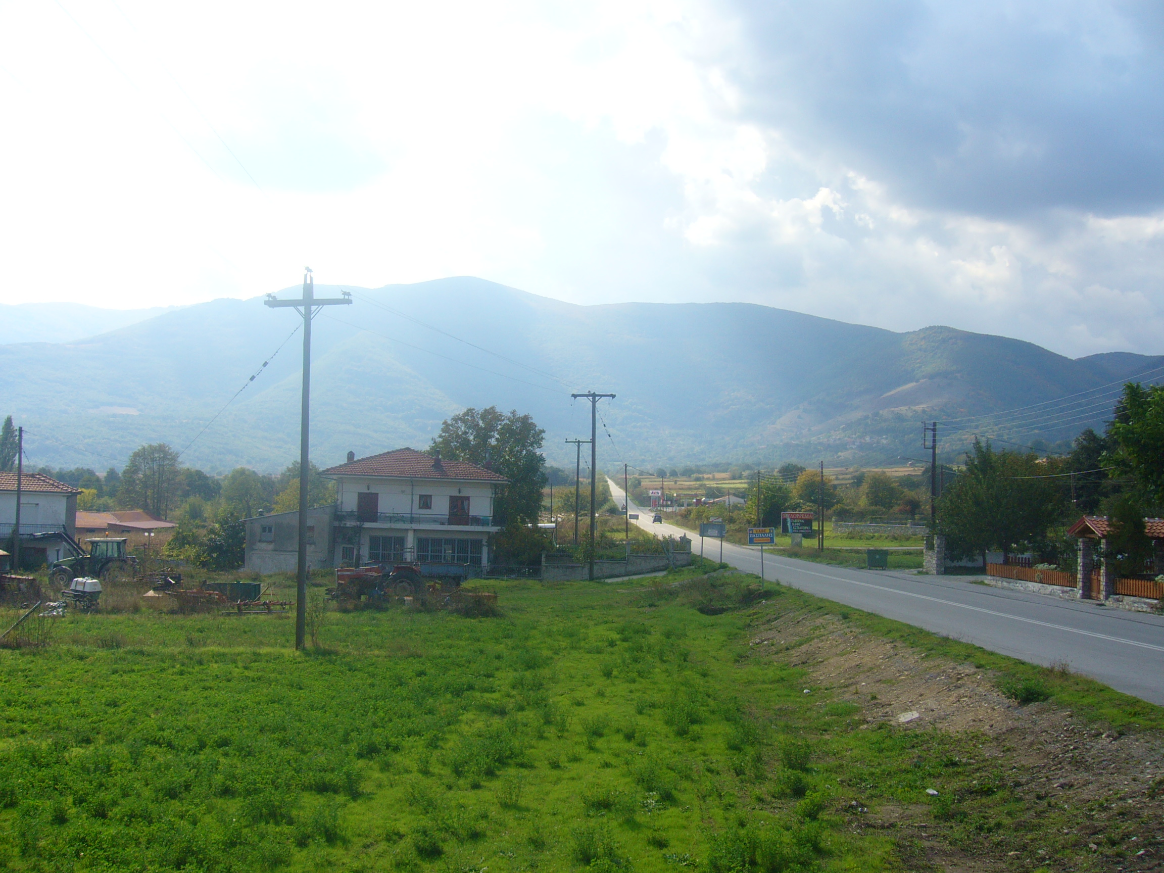 Sklithro village, Florina Prefecture, Region of Westmacedonia, Greece.